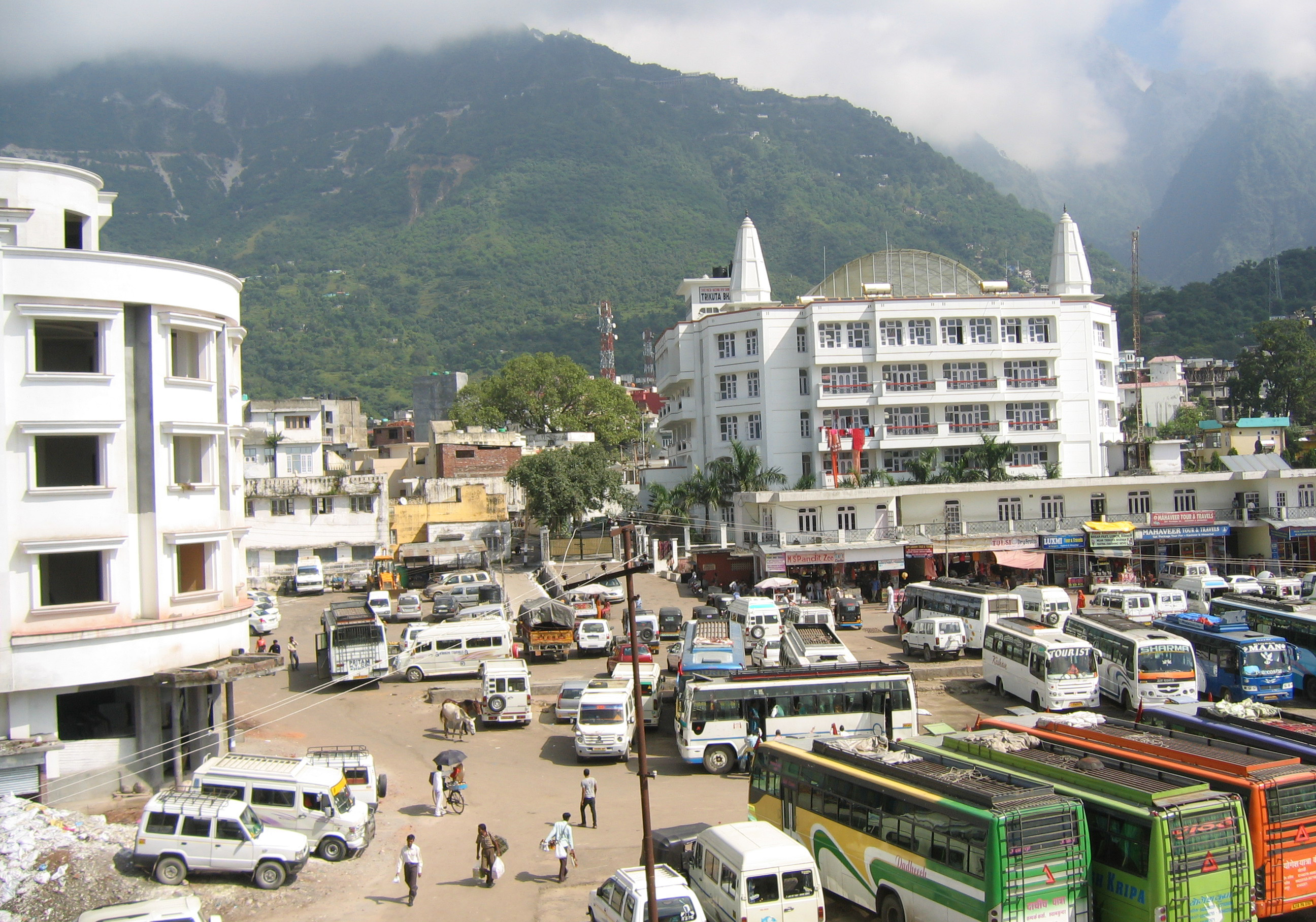 Katra - Vishnodevi